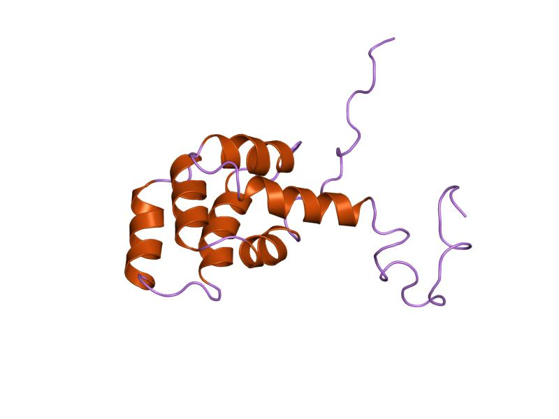 Cartoon representation of the molecular structure of protein registered with 1ddf code.